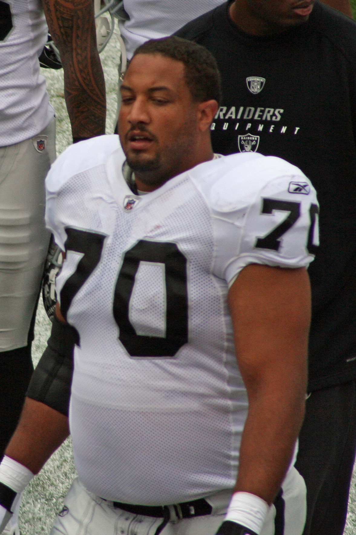 Langston Walker, a player on the Oakland Raiders American football team.